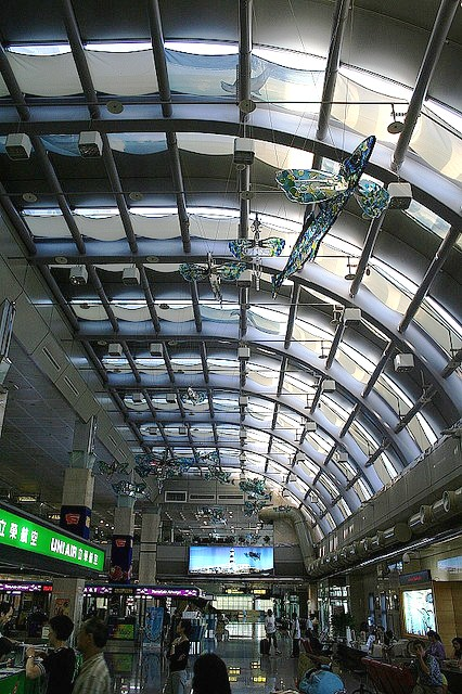 Magong Airport